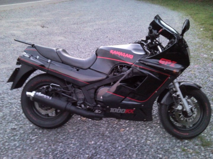 Kawasaki GPZ1000RX 1986 Bloody Lady